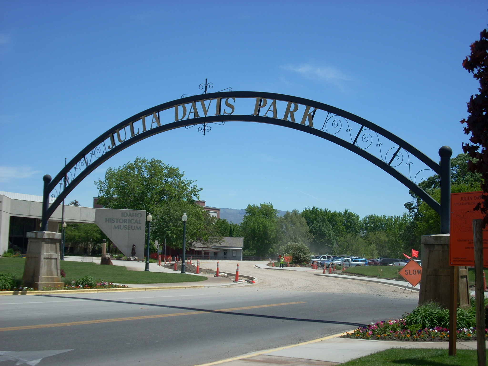 The sign above an entrance into Julia Davis Park